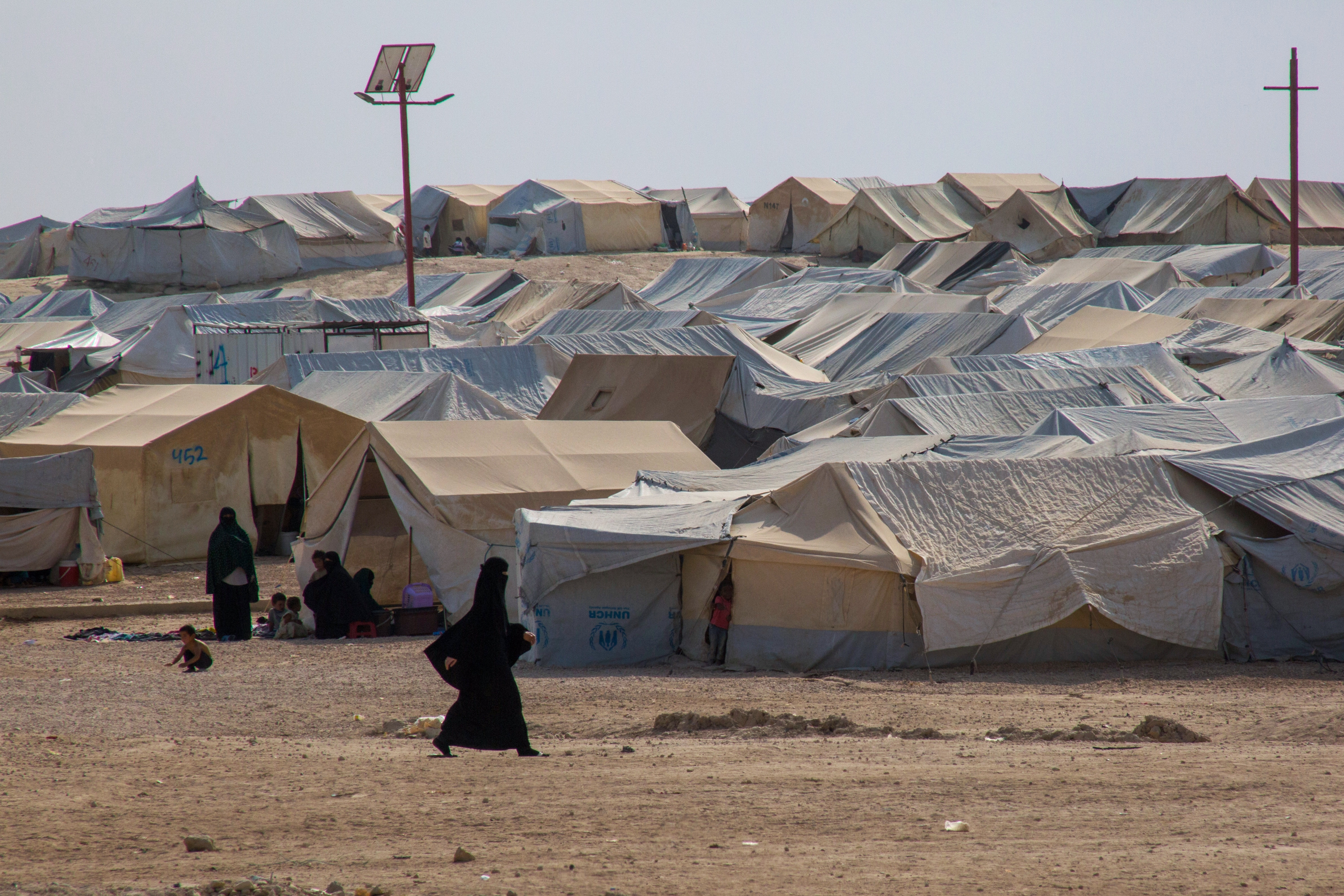 We are the first reporters inside the al-Hol Camp since Turkish military operations began in northeastern Syria last week. Officials say since the conflict began, the camp, which houses 71,000 people, has become "out of control." Camp officials say in the past week there have been attacks, escape attempts and open calls for a violent uprising in al-Hol Camp in Syria, Oct. 16, 2019. (Y. Boechat/VOA)